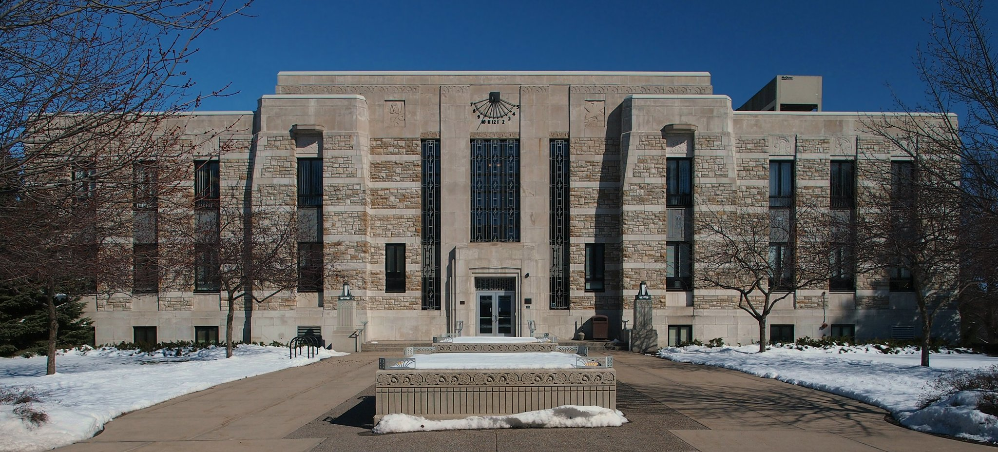 Rice County Courthouse, 218 3rd St NW, Faribault, Minnesota, USA. Viewed from the south.